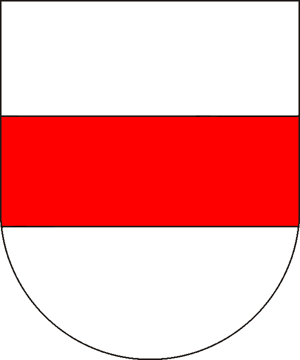 coats of arms of the lordship of Kriechingen (Créhange)